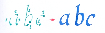 Illustration of following strokes in direction and order when forming calligraphy letters.